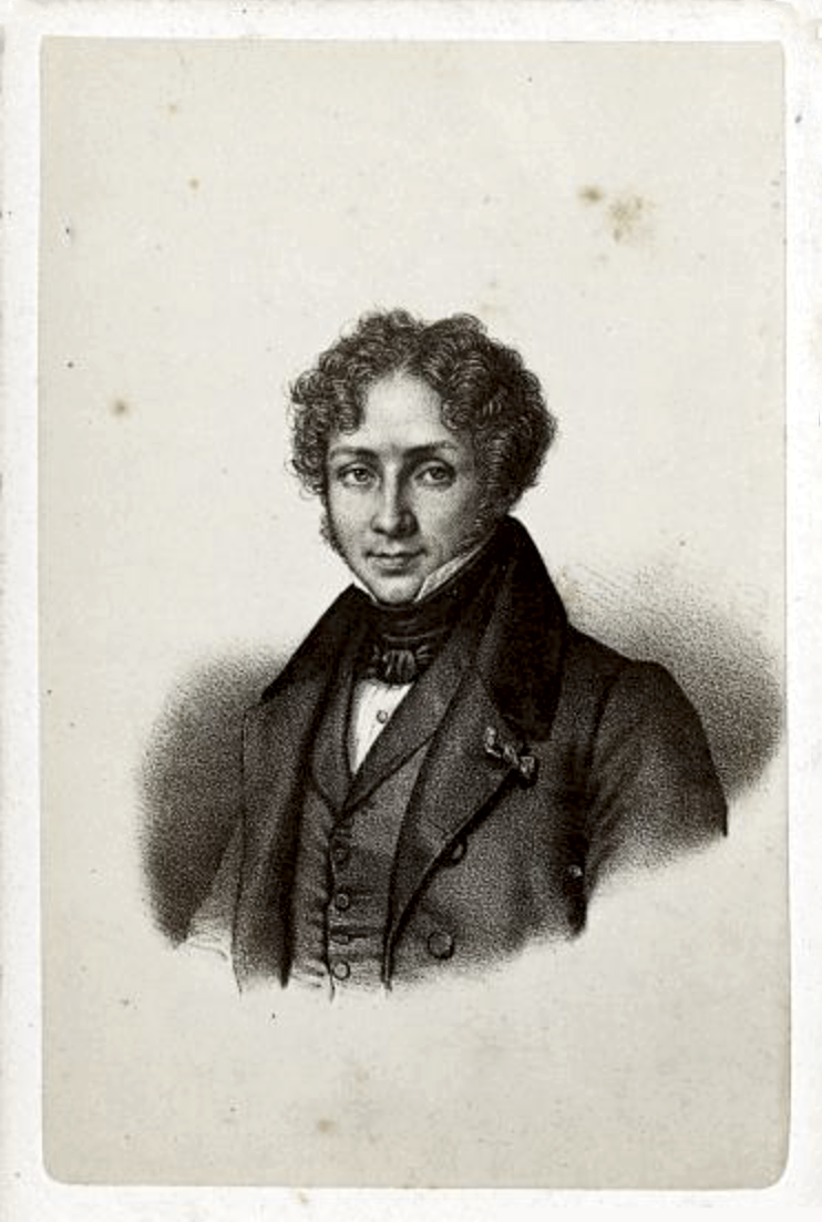 Portrait of Alexandre Soumet (1786–1845), French writer.